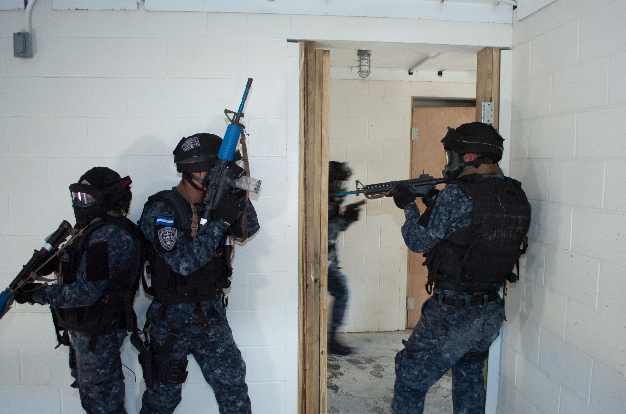 Honduran TIGRES work to clear rooms inside a building serving as their objective on an Eglin Air Force Base range Feb. 27. The TIGRES, a counter-narcotic and counter-trafficking force, were participating in culmination exercise testing the nearly two weeks of advanced training they received from Green Berets of the 7th Special Forces Group (Airborne).